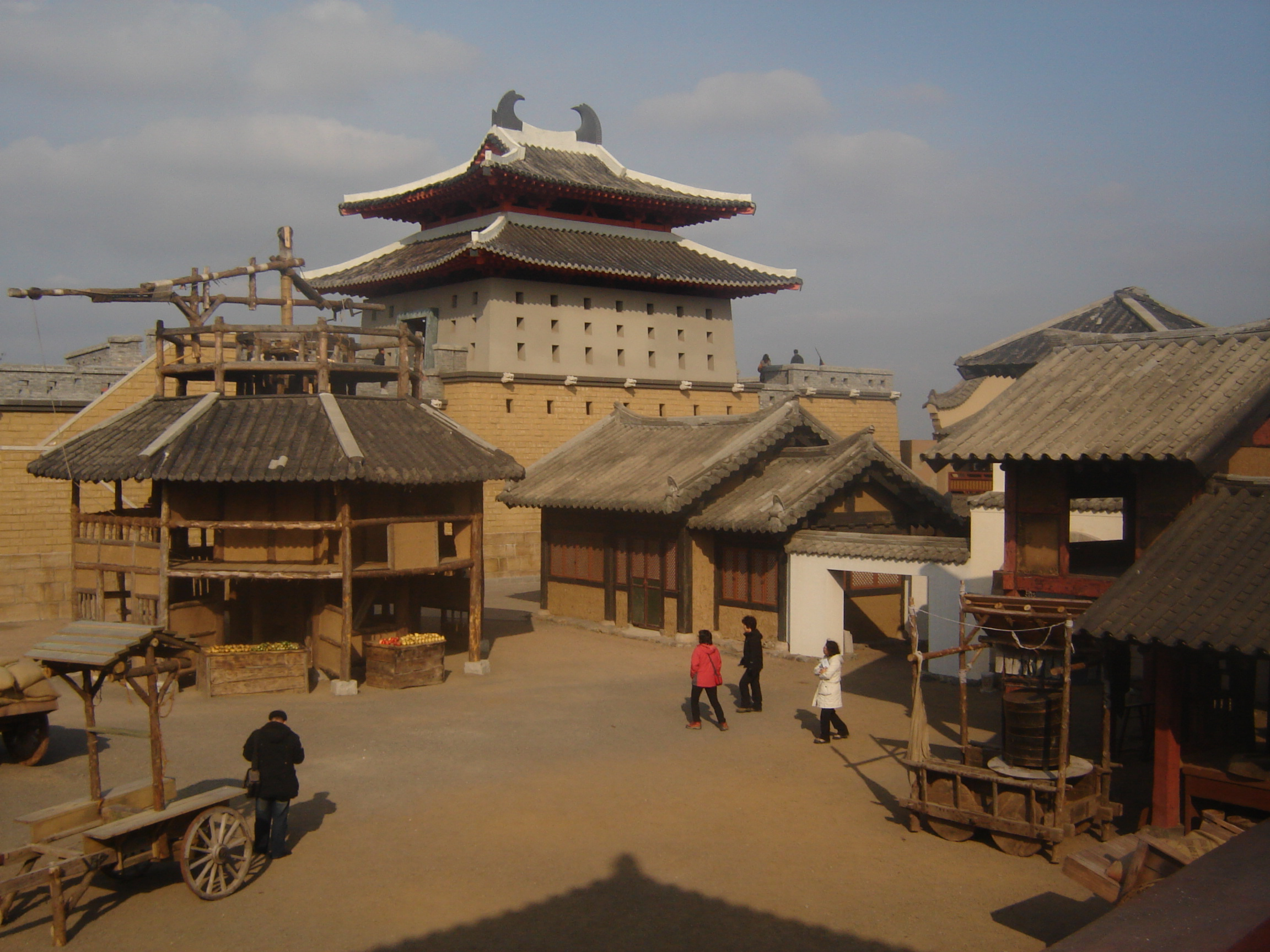 Drama The Legend (TV series) Studio in Jeju, South Korea.